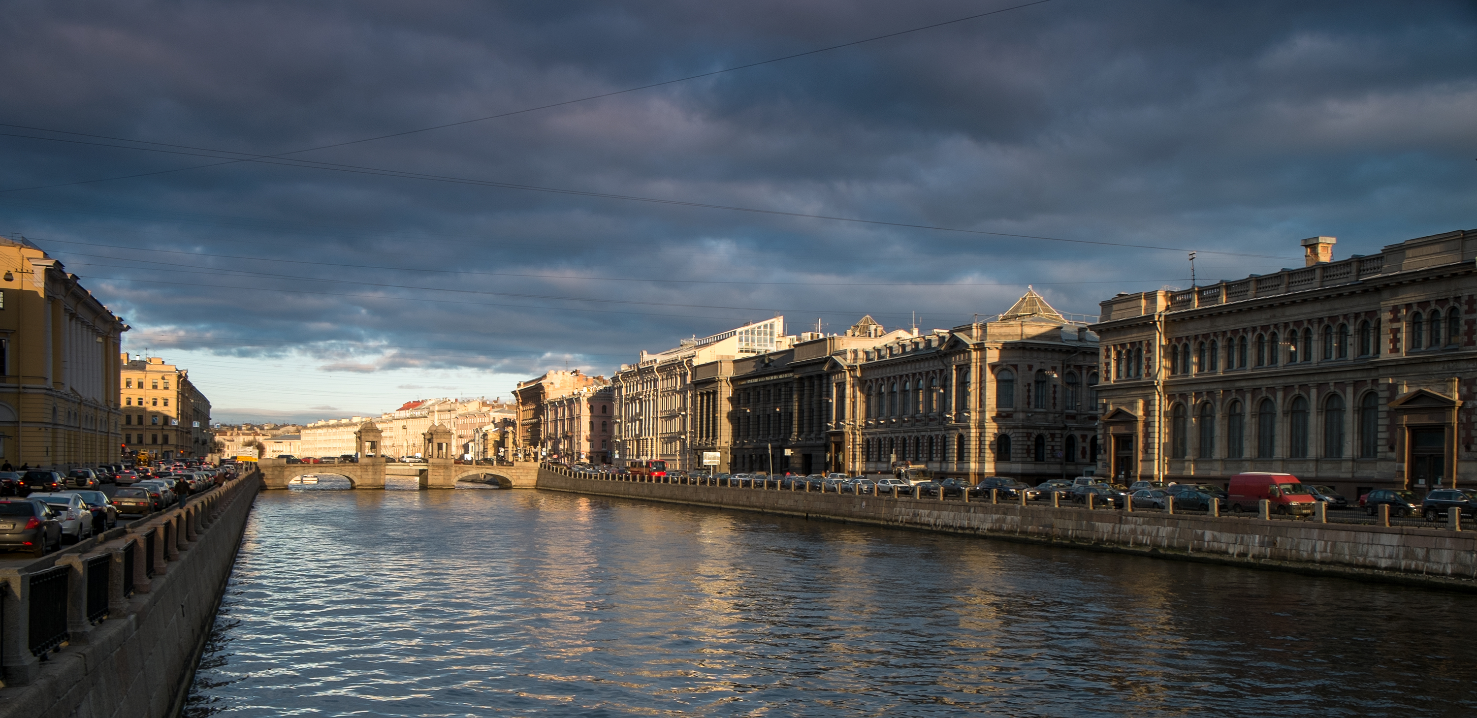 Lomonosova Brige (Saint Petersburg, Russia). View from Fontanka river.